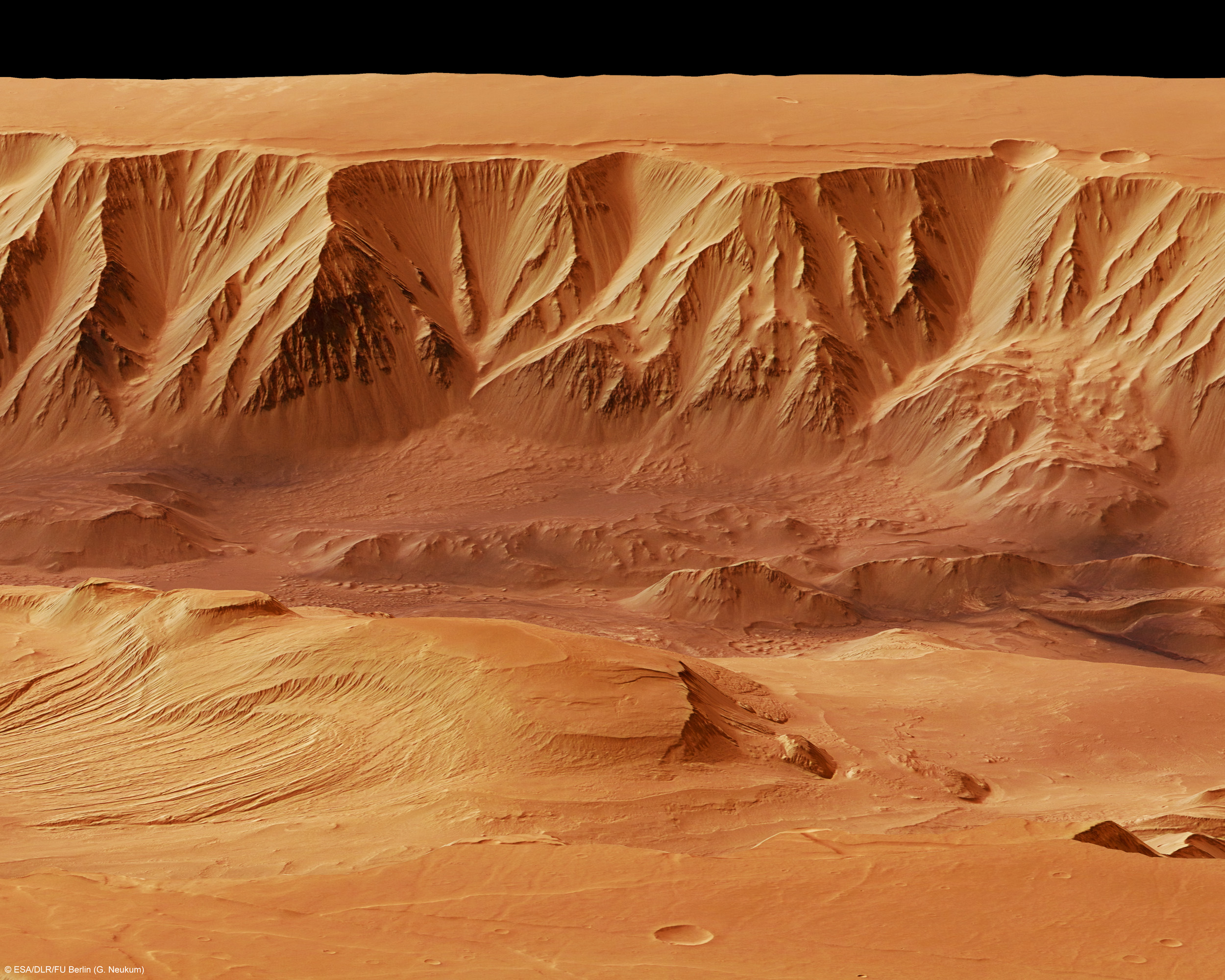 A computer-generated perspective view of the deep valley Candor Chasma on Mars based on data from Mars Express.